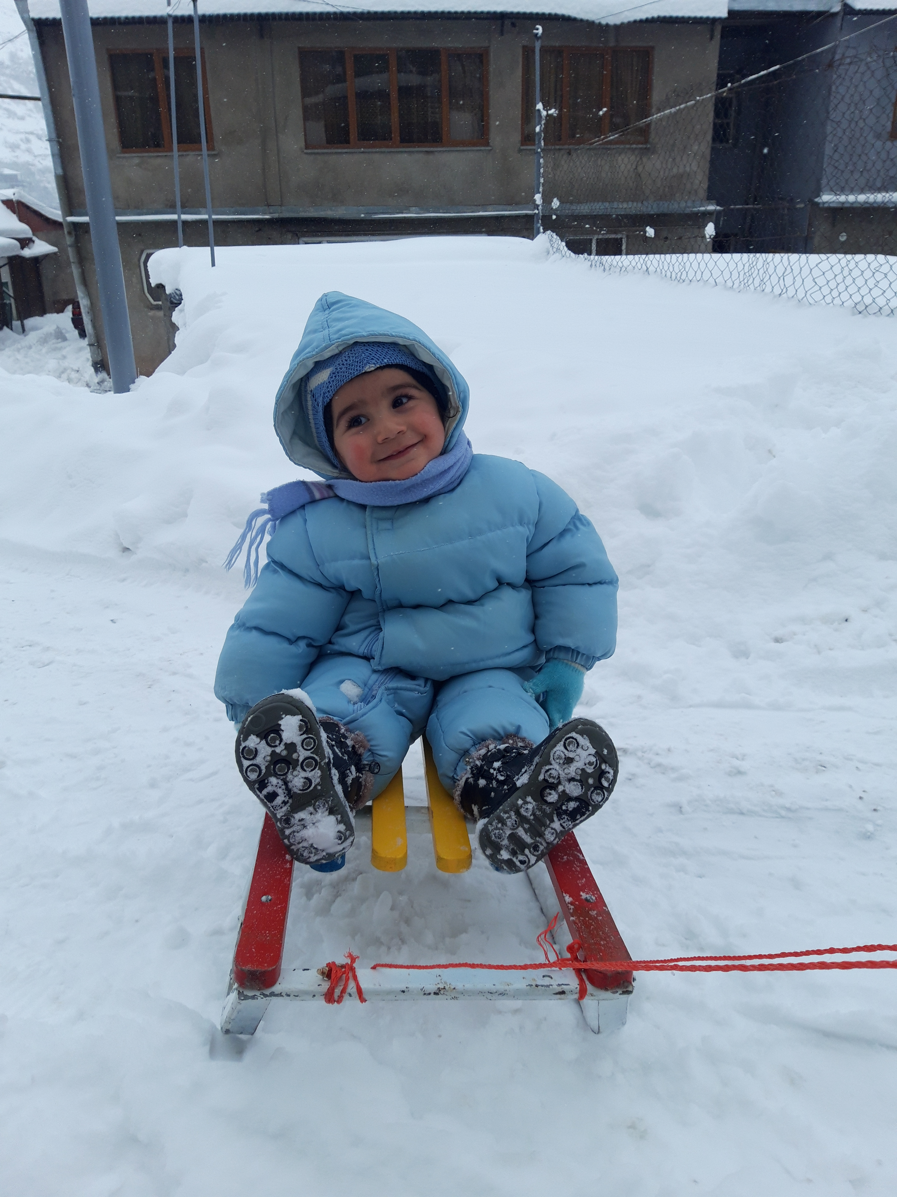 Baby with sleigh